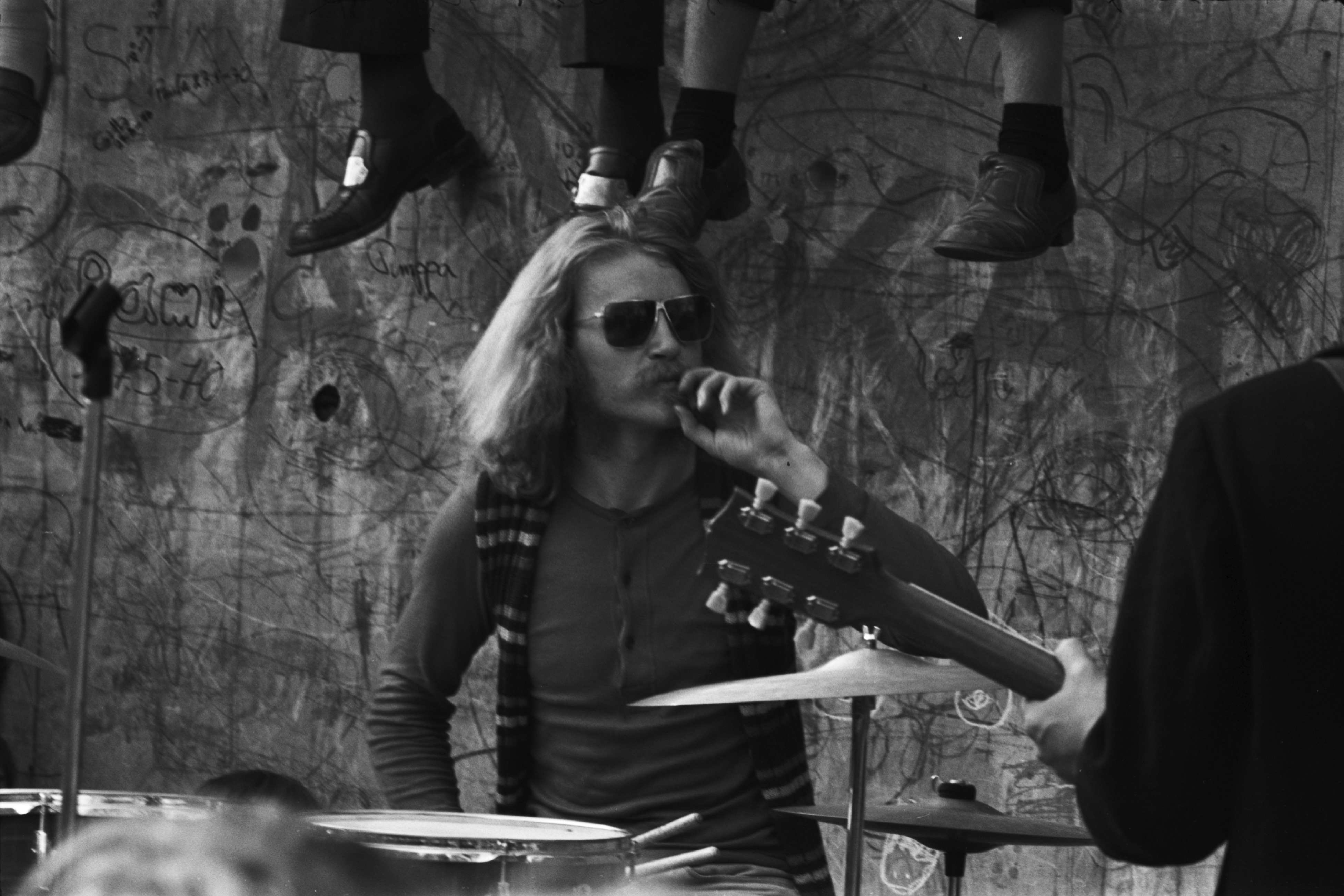 Photograph of the Finnish drummer Edward Vesala (1945–1999) when the musical group Apollo was performing in Helsinki, Karhupuisto.